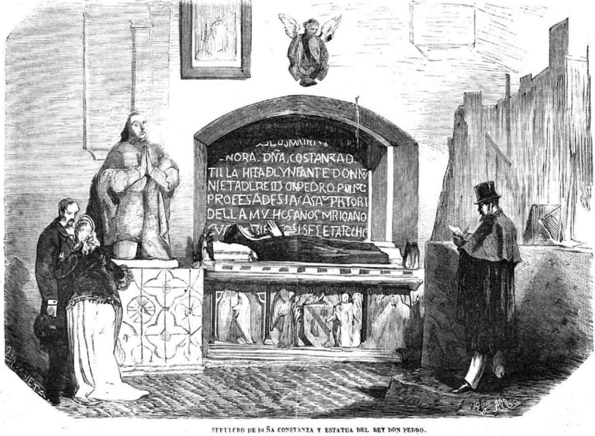 Constanza de Castilla and. Pedro I de Castilla.